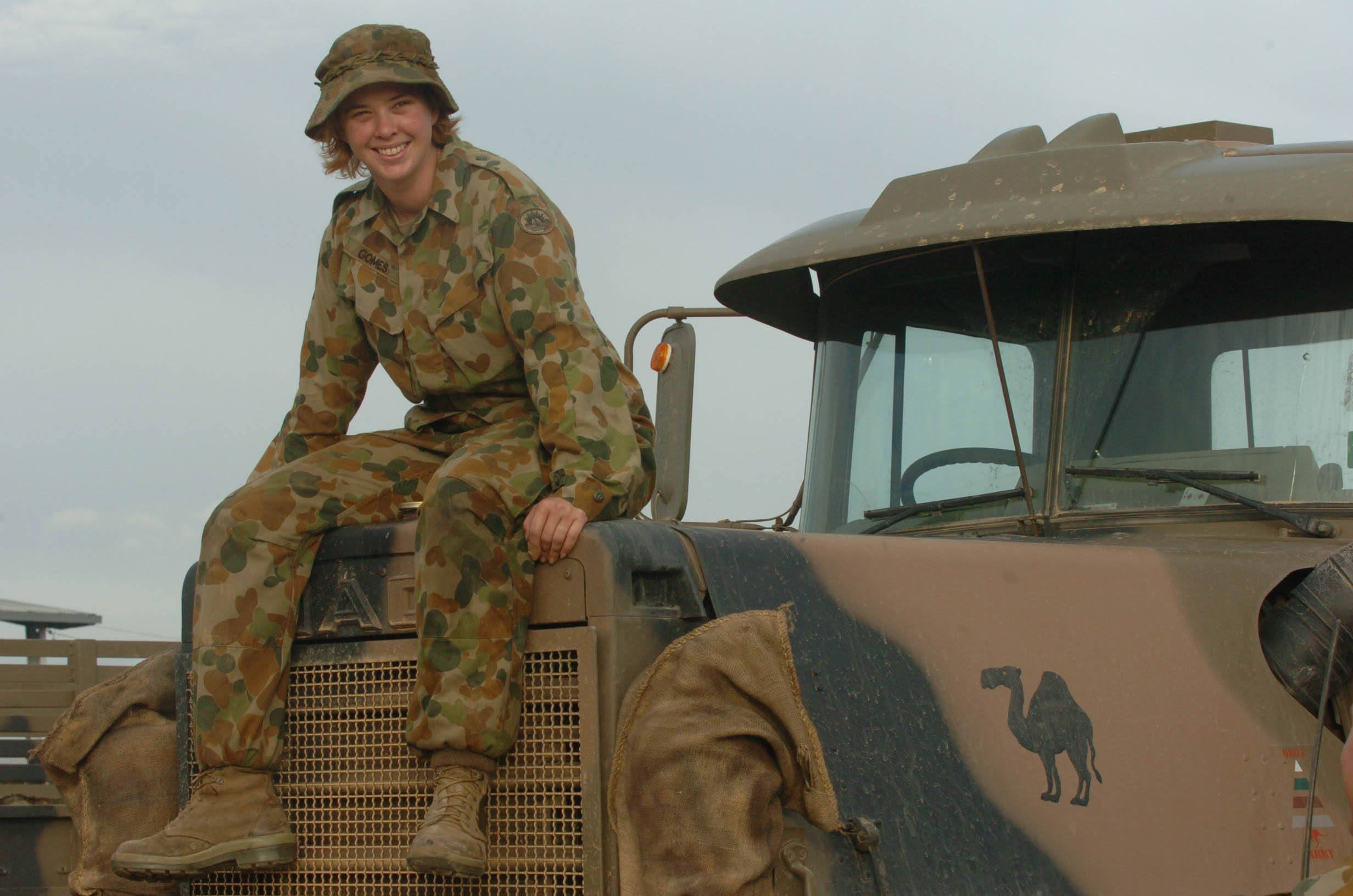 Sourced from: Caption: Camp Rocky, Queensland, Australia (June 14, 2005) - PTE Shaylee Gomes and her truck of 26 Transportation Squadron at Camp Rocky during exercise Talisman Saber 2005. Talisman Saber is a four-week biennial exercise to conduct collective training and practice inter-operability between US and Australian forces while further developing the capability to undertake joint, combined operations and helping to build regional security. More than 17,000 personnel from Navy, Army, Air Force, Marine and Special Forces units are participating in Talisman Saber, a merger of the Tandem Thrust and Crocodile series of exercises. U.S. Navy photo by Photographer's Mate 1st Class (AW/SW) David A. Levy